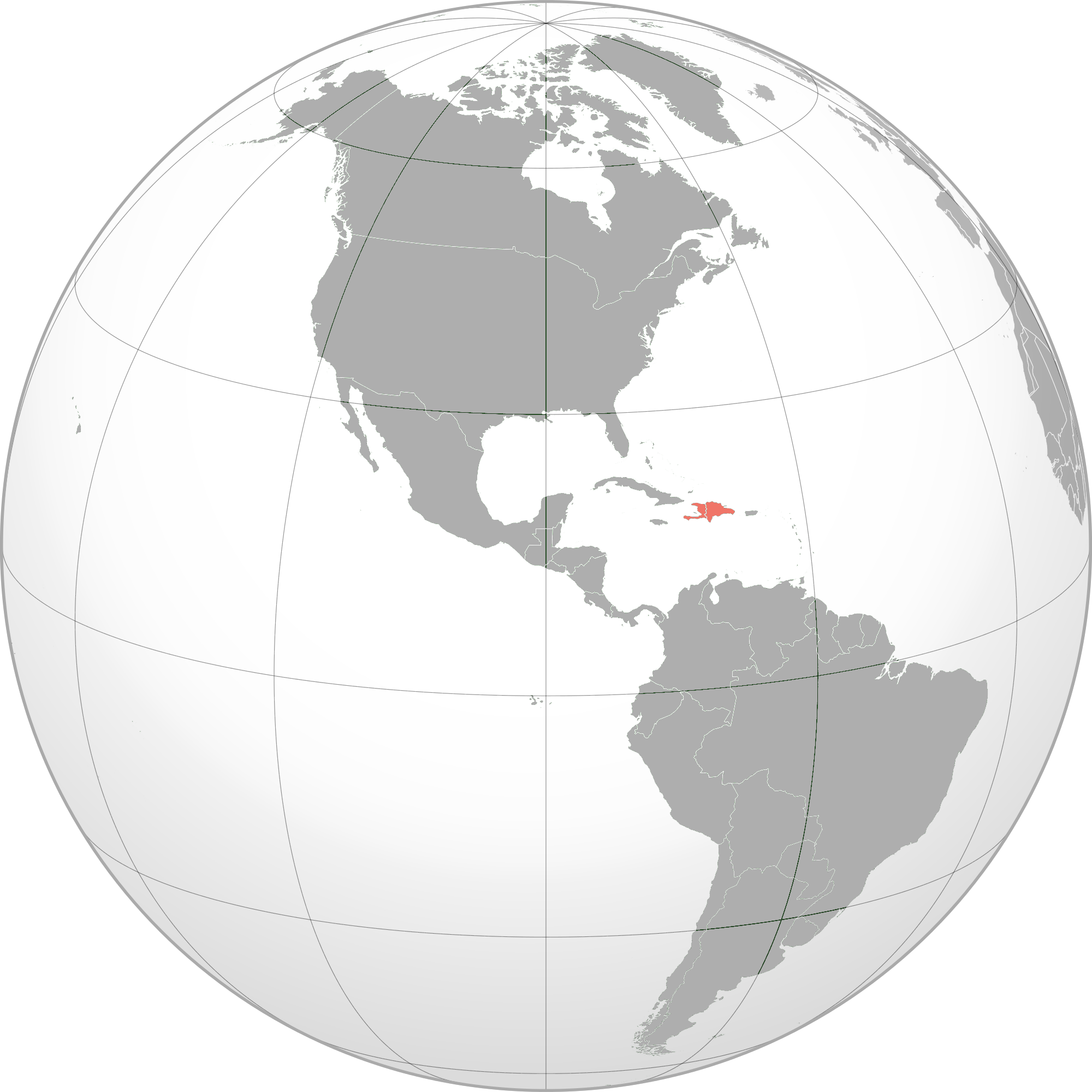 This is an image of Haiti and The Dominican Republic selected on a map.